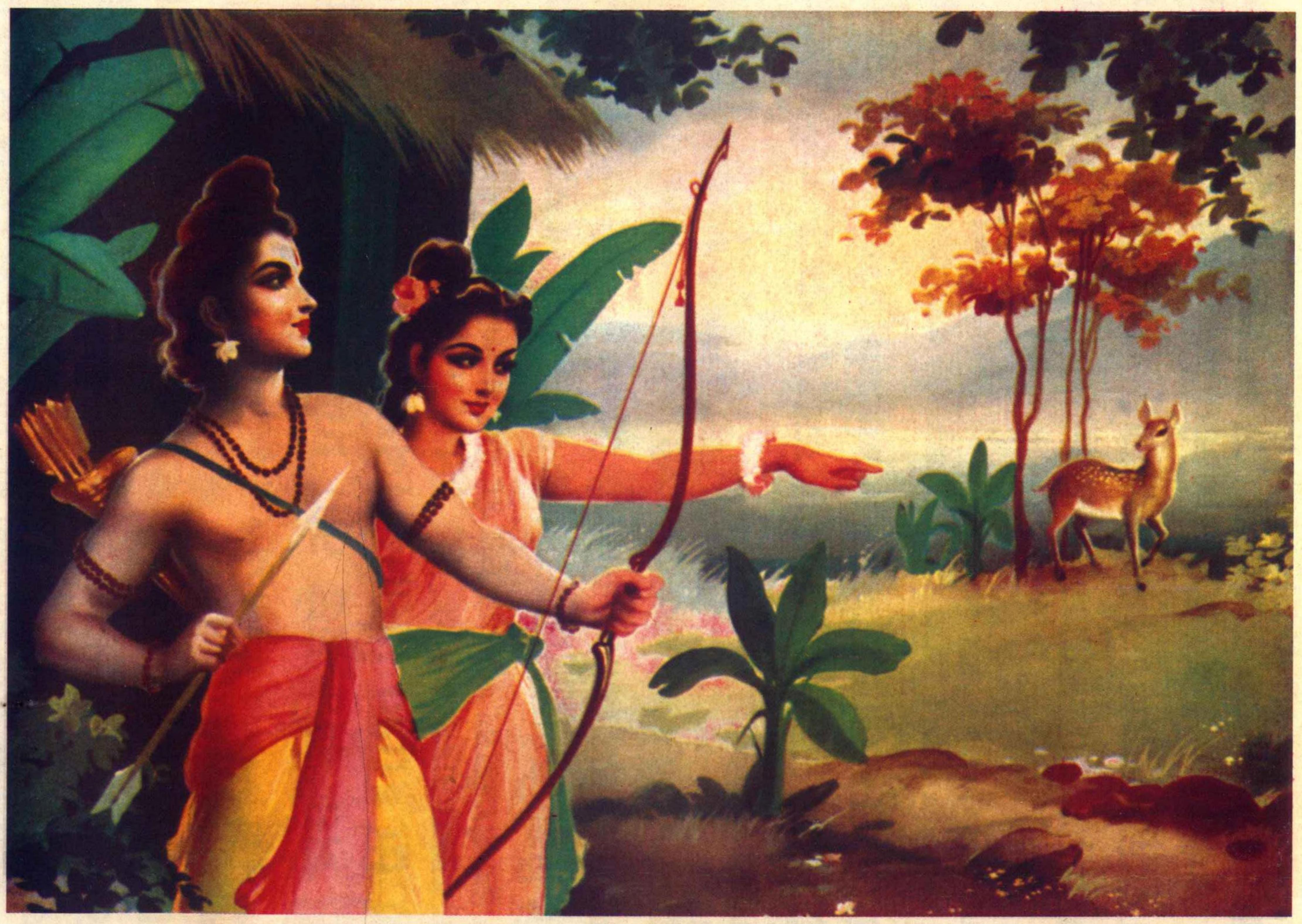 Tulsi Ramayan Tej Kumar Book Depo by MahaMuni Usage Topics Sanskrit, "महामुनि का संग्रह", "Tej Kumar Book Depot" Collection opensource Language Sanskrit Indological Books , 'Tulsi Ramayan - Tej Kumar Book Depo.pdf' Identifier TulsiRamayanTejKumarBookDepo Identifier-ark ark:/13960/t2t49xm76 Ocr language not currently OCRable Ppi 600 Scanner Internet Archive HTML5 Uploader 1.6.3